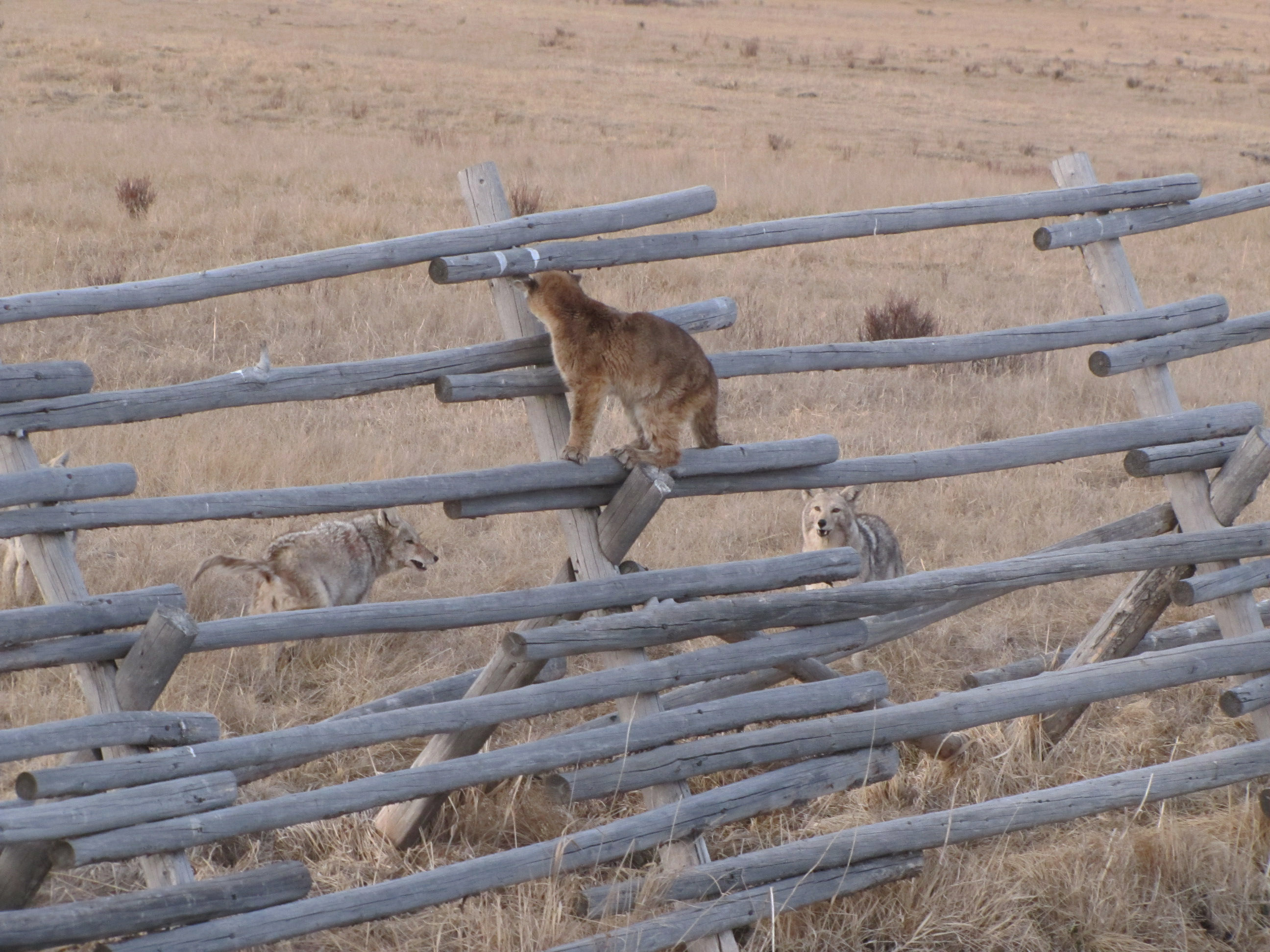 The National Elk Refuge's Outdoor Recreation Planner witnessed a spectacular standoff between two juvenile mountain lions and five coyotes. The coyotes let the cats know they weren’t welcome in the area. The mountain lions sought safety on a buck and rail fence for over an hour while the coyotes lurked in the background. The coyotes become more aggressive as one of the mountain lions moves down the fenceline. Credit: Lori Iverson / USFWS